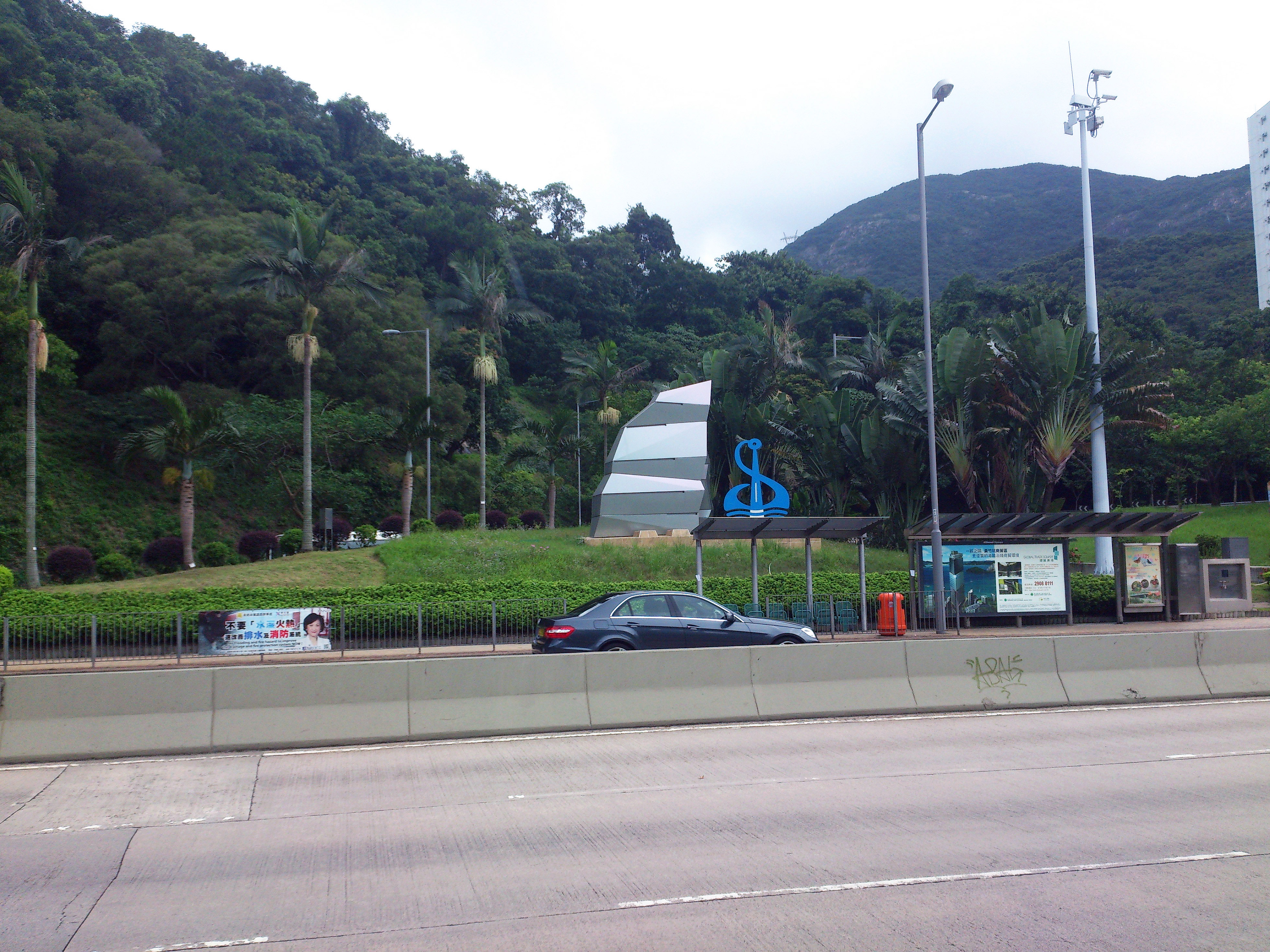 Southern District Landmark on Wong Chuk Hang Road